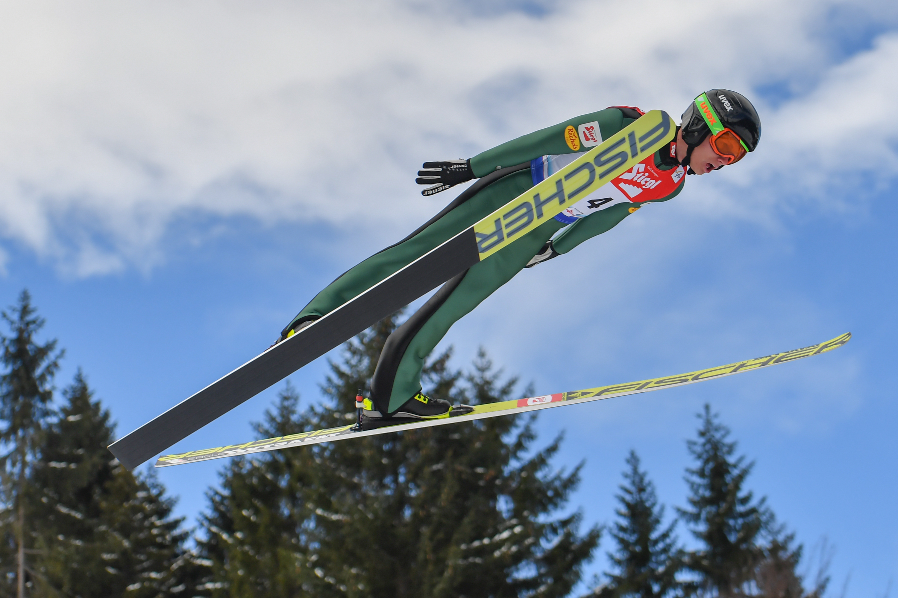 11/2/2017 Eisenerz, FIS Continental Cup Nordic Combined.